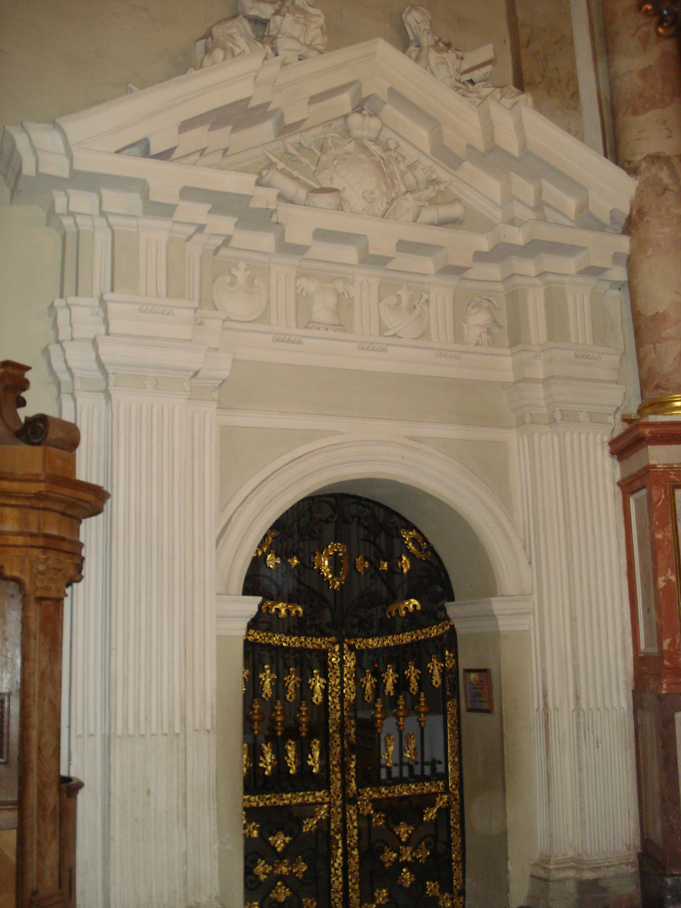 Oginski Capella in the Church of St. Johns (Vilnius). 2007